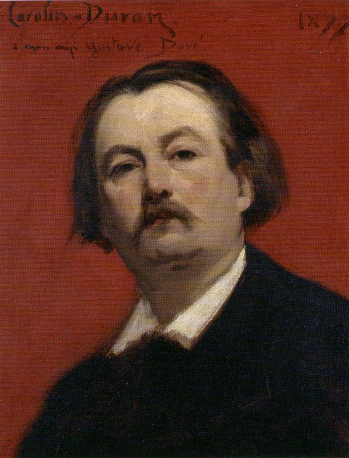 Portrait of Gustave Doré